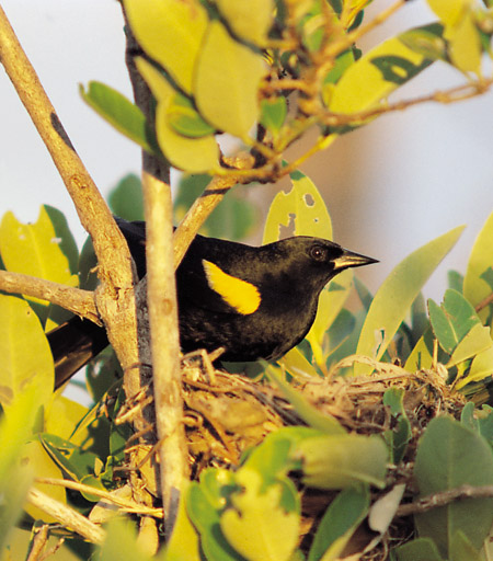 Endangered yellow-shouldered blackbird (Agelaius xanthomus), endemic to Puerto Rico.